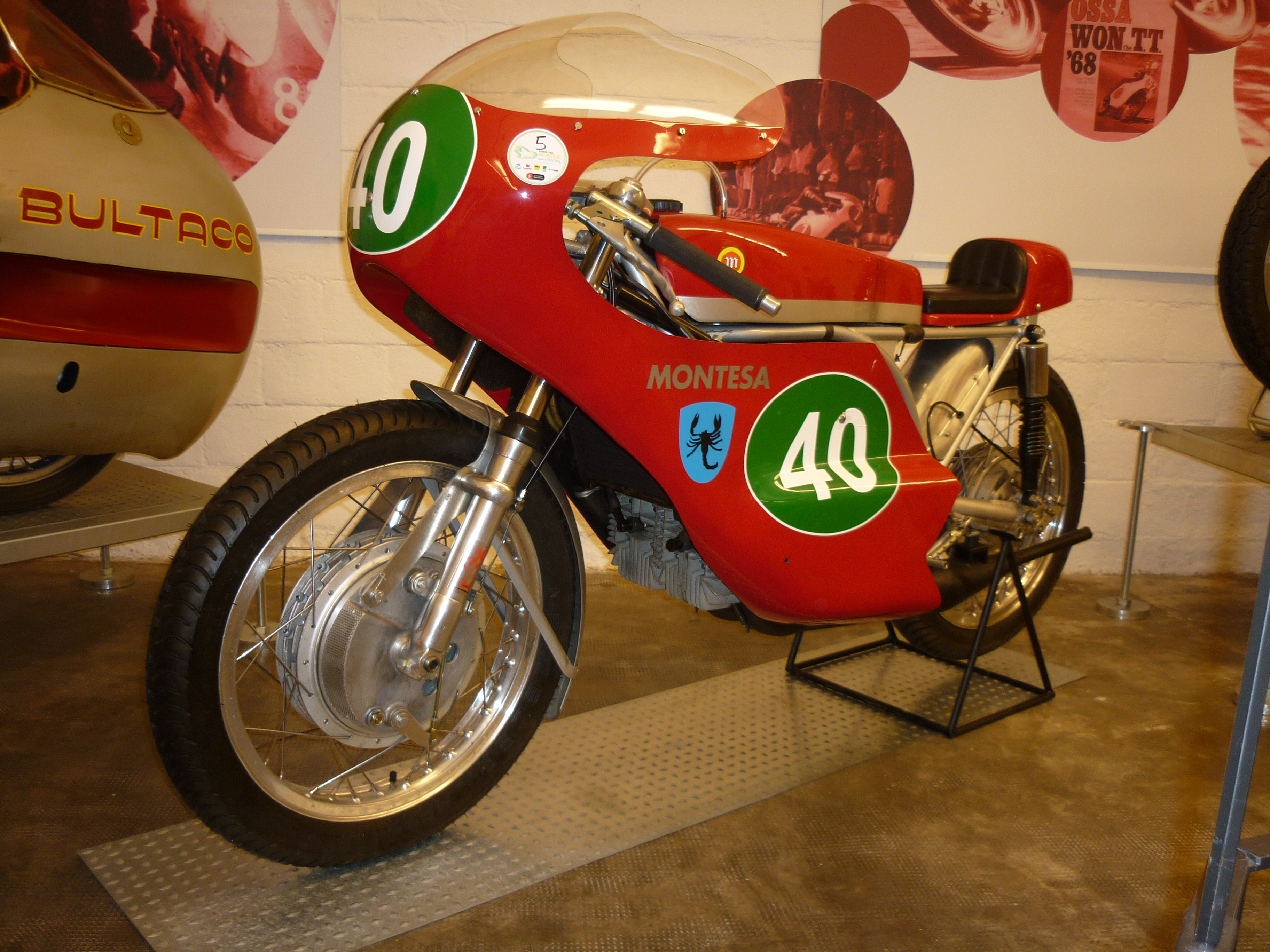 Montesa 250cc Two Cylinders. Developed with Francesco Villa in 1966, it fits a 2 horizontal cylinders engine with a double rotary valve and mixed air/water cooling. It was ridden by Villa, JM Busquets, Salvador Cañellas and Jaume Alguersuari